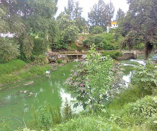 Localizado en México, D.F